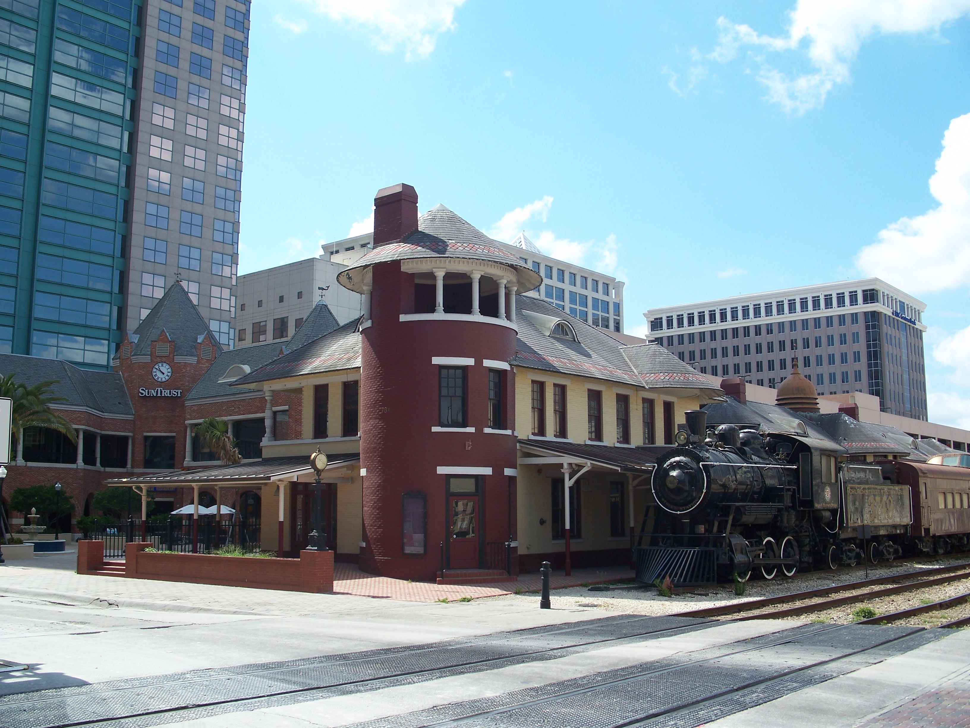 Old Orlando Railroad Depot, in Orlando, Florida